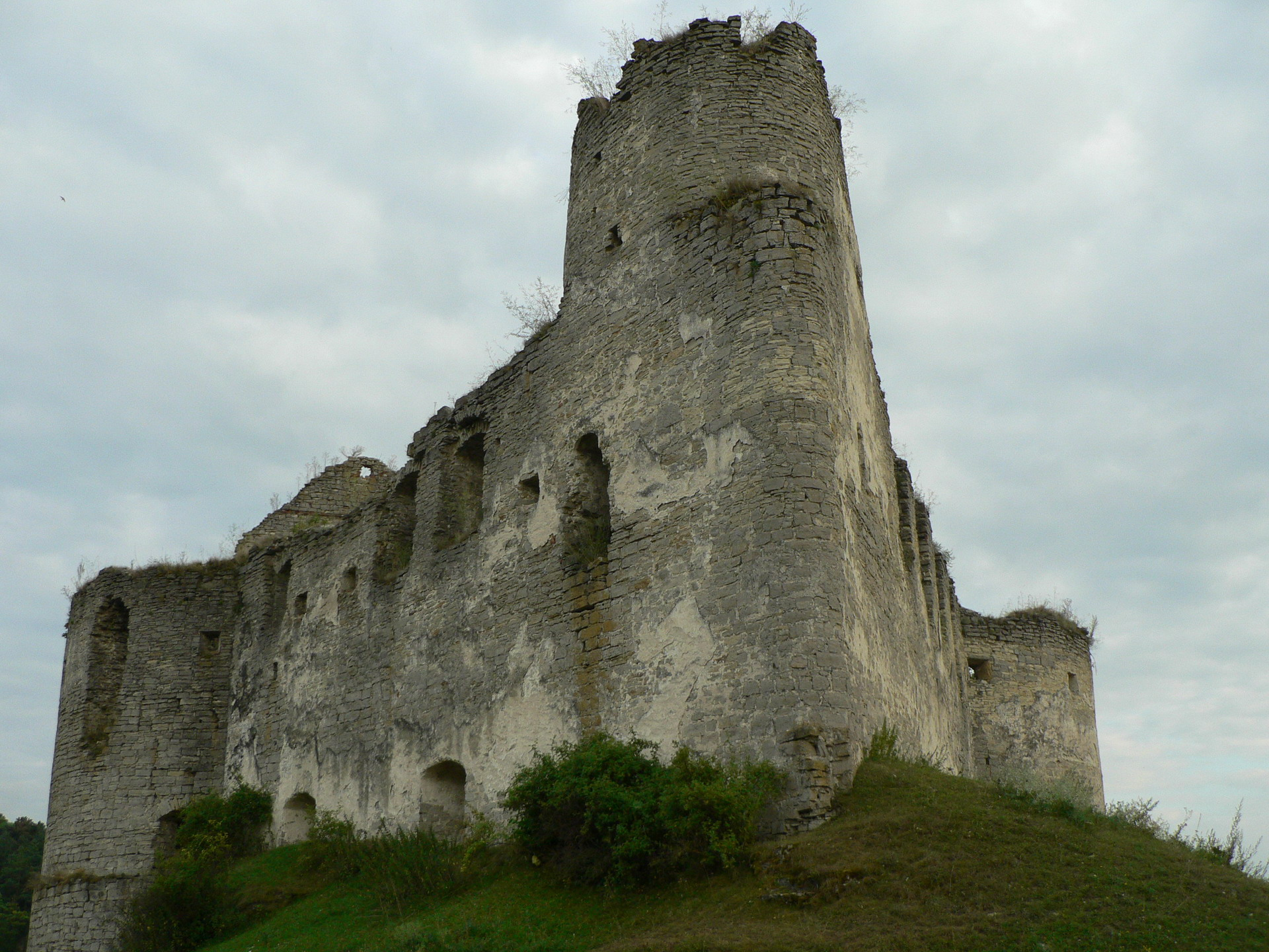 Castle of Sydoriv, Ukraine.